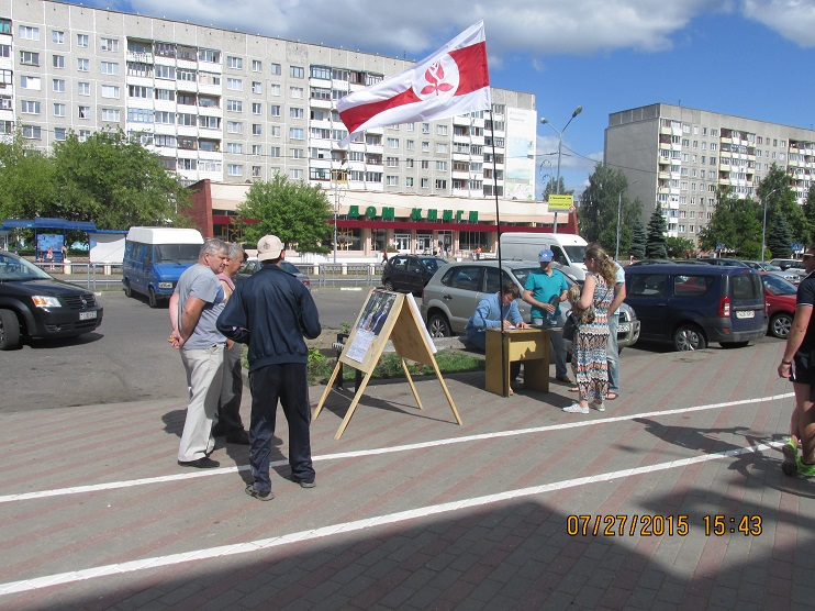 Agitation in supporting Tatciana Karatkevich in Navapolatck